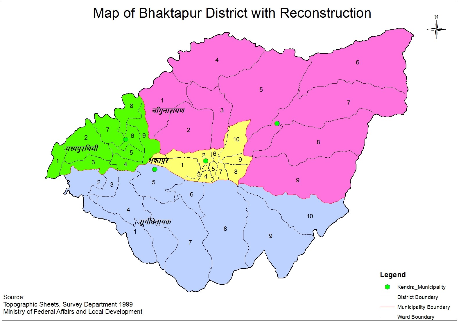 Bhaktapur District Map